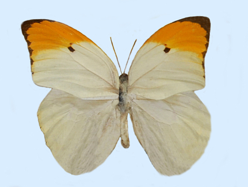 Anteos menippe, on display at the Museo Civico di Storia Naturale "Federico ed Ettore Craveri" (Bra, Italy)